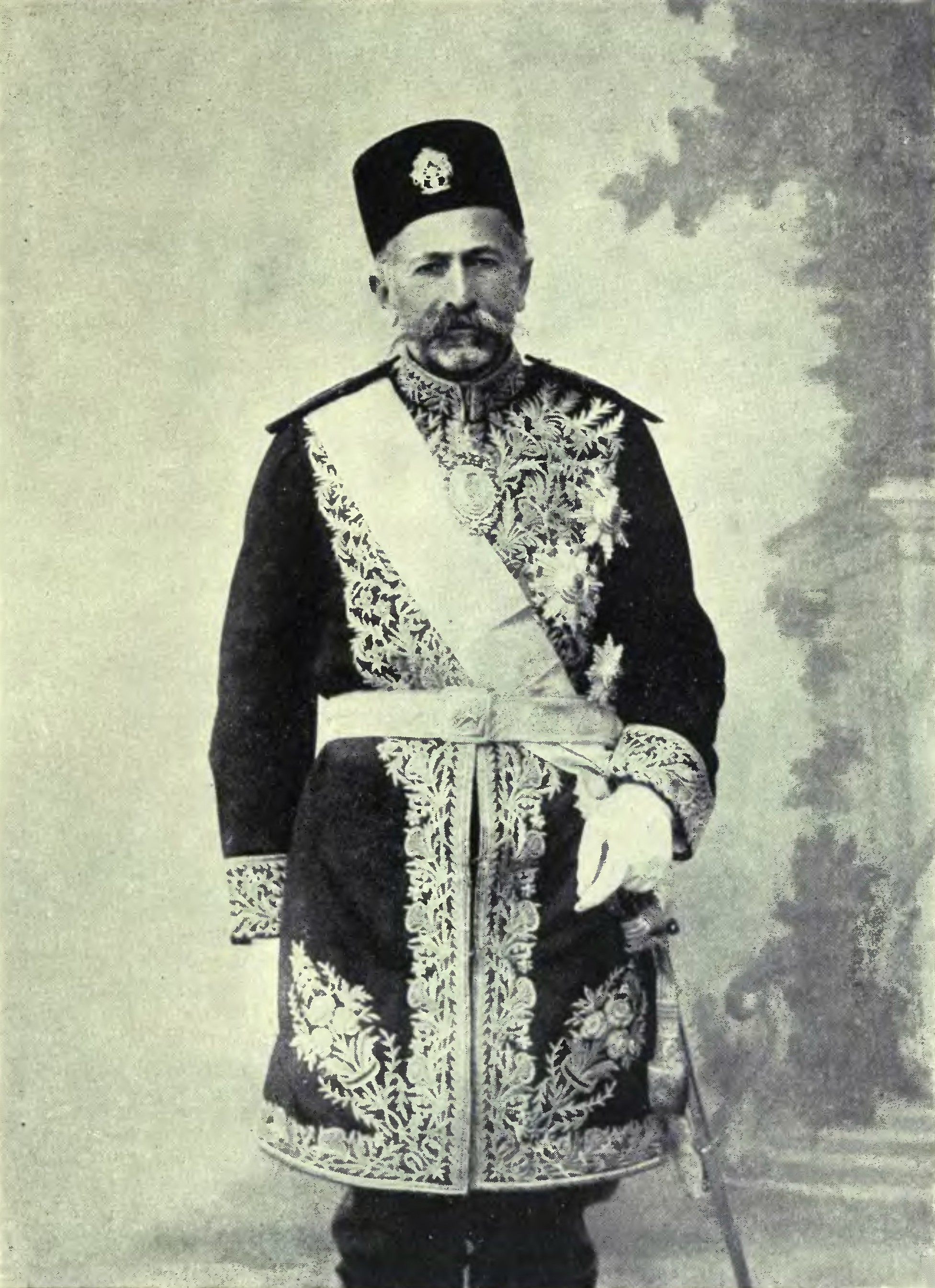 Mohammad Vali Khan, Sepahsālār-e Azam-e Tonekāboni (his family later adopted the family name Khalatbari), leader of the constitutionalist revolutionary forces from Iran's northern provinces of Gilan and Mazandaran. He was the first to arrive in Tehran and liberate the city from the Royalist forces. He became Minister of Defence in the first constitutionalist government following dethroning of Mohammad-Ali Shah Qajar in 1909. He subsequently became Iran's Prime Minister, holding this post between October 1909 and July 1910.